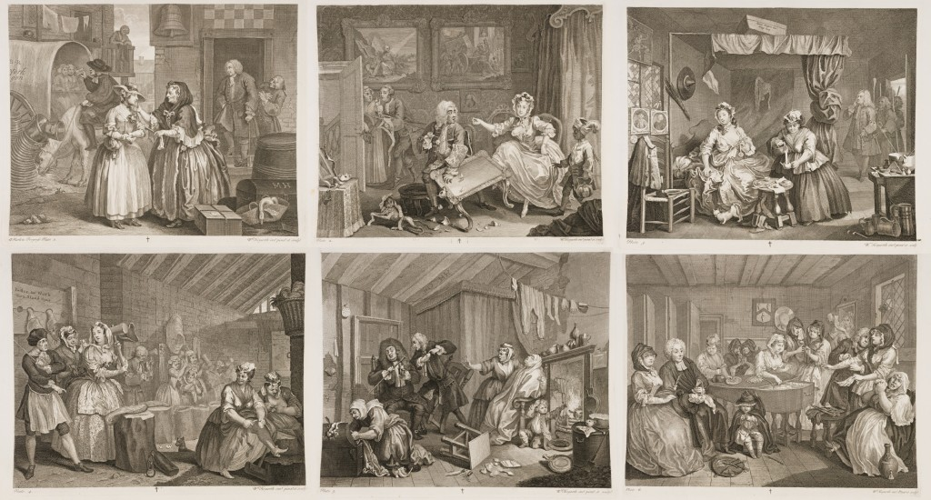 A Harlot's Progress (1732), by William Hogarth.